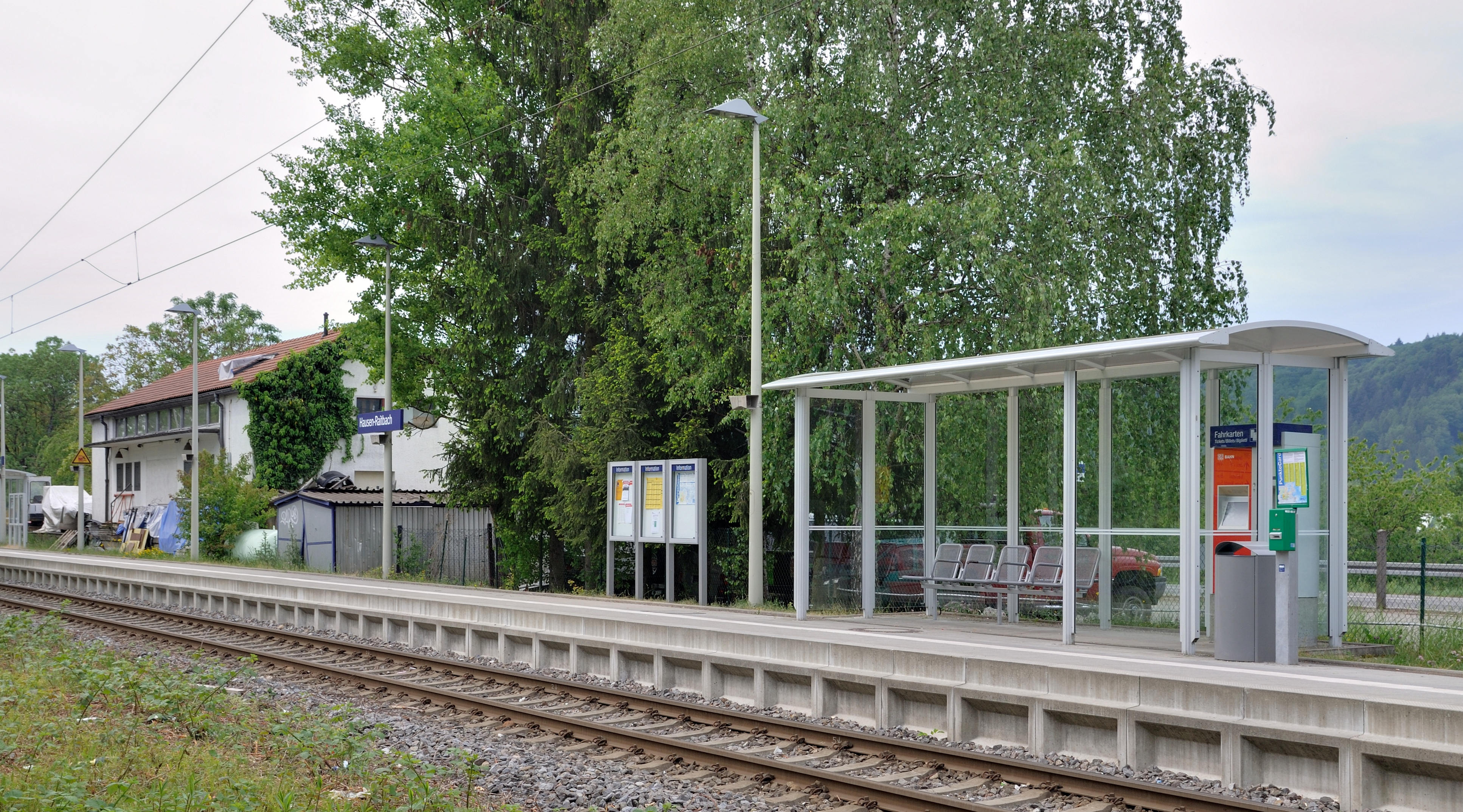 Hausen im Wiesental: stop station of the Regio-S-Bahn (commuter railway system)